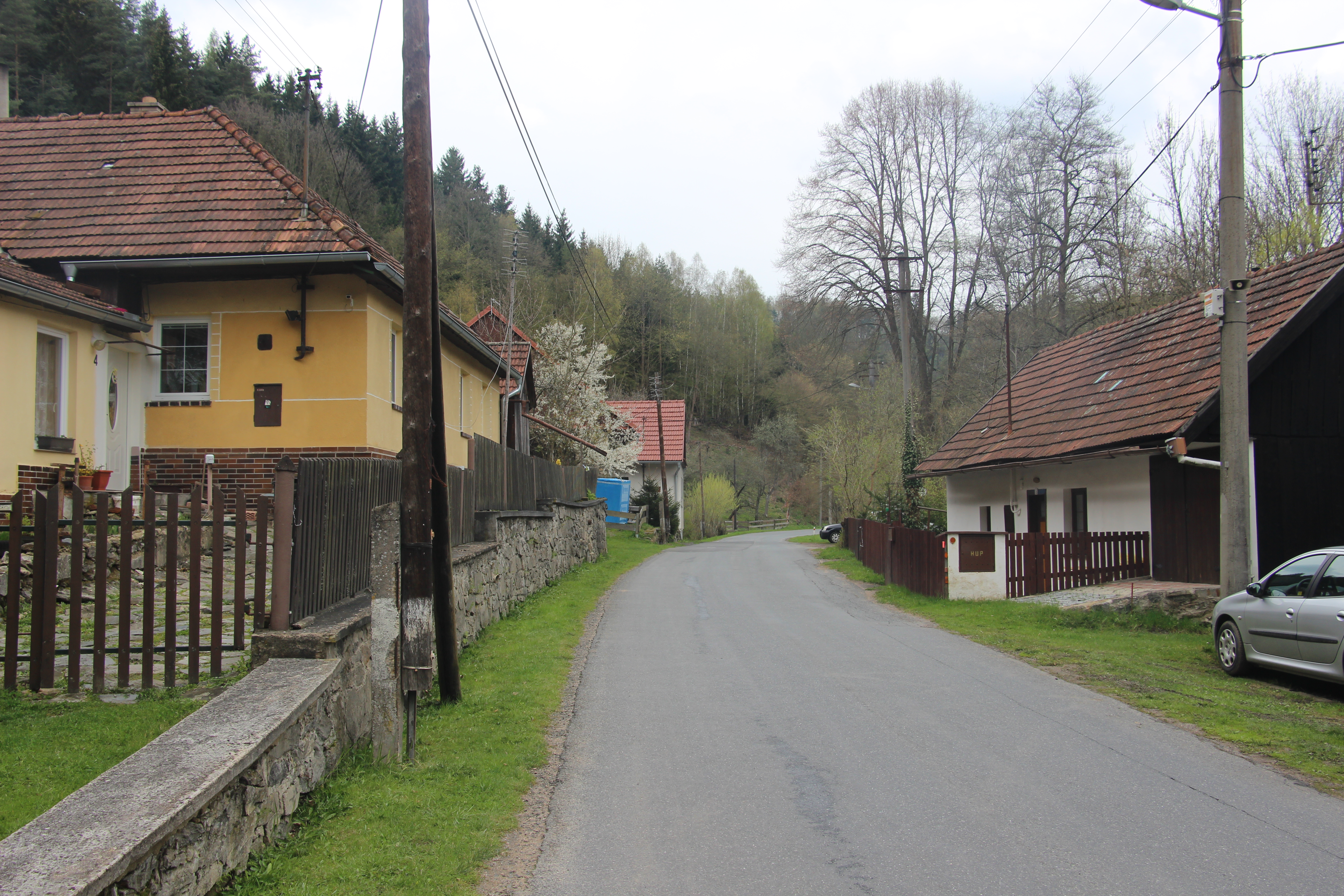 Svojanov, Hutě, Svitavy District, Czech Republic